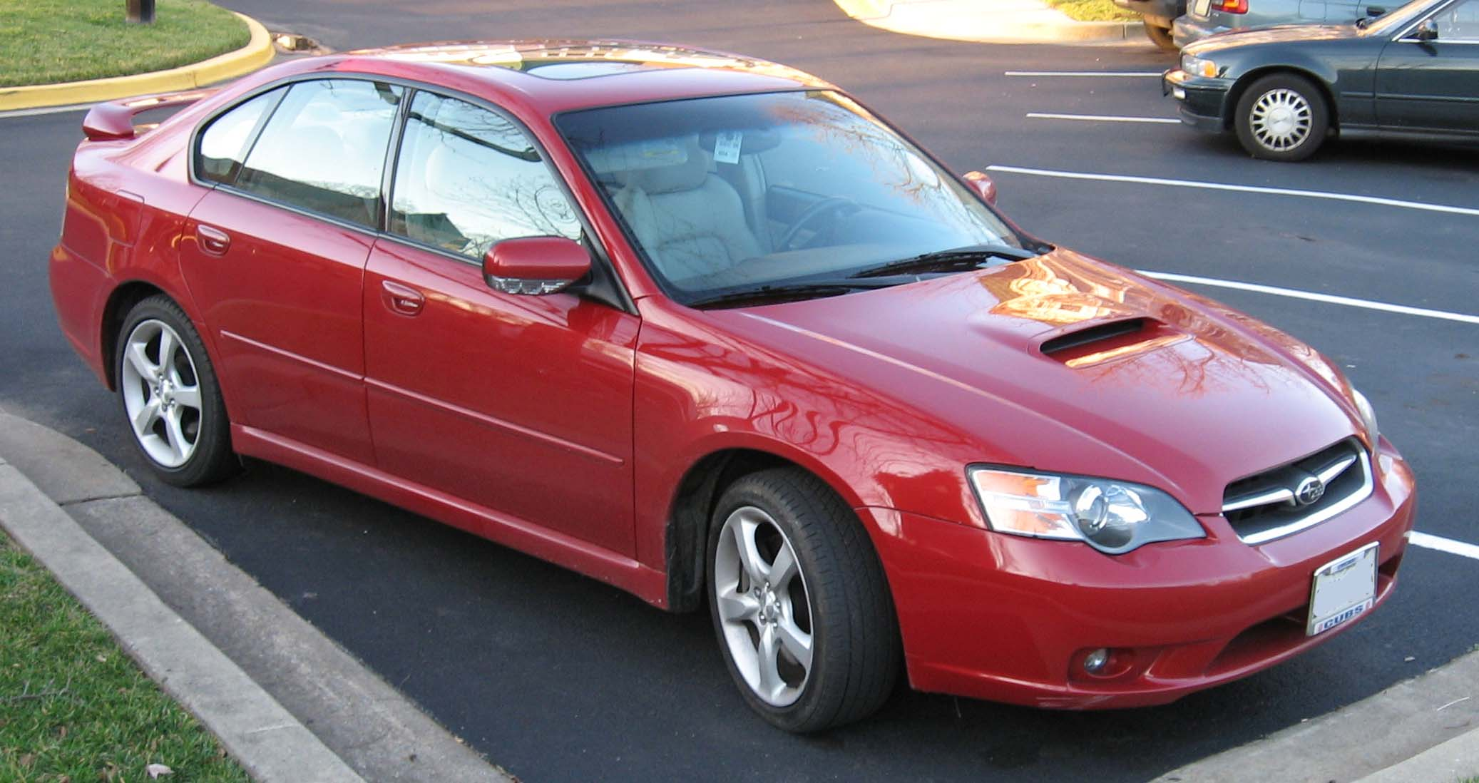 2005-2006 Subaru Legacy 2.5GT Limited shown in Garnet Red Pearl, photographed in USA.